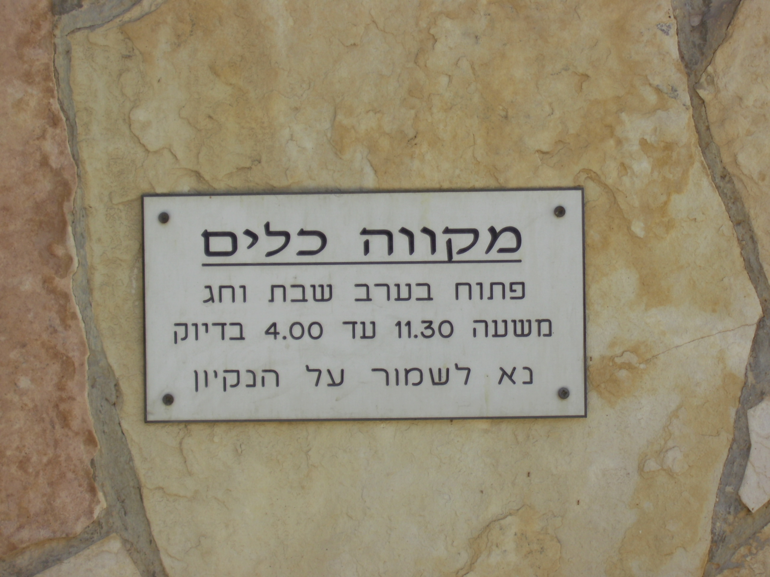 Jerusalem, Katamon, near Pat Junction - Mikve מקווה טהרה Jerusalem